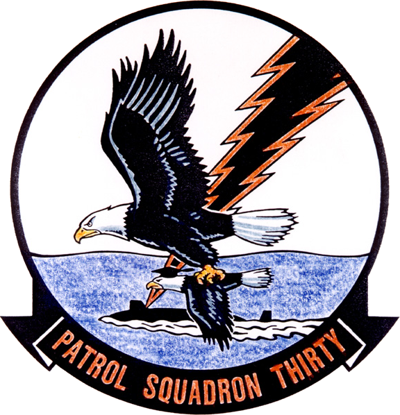 Insignia of the United States Navy Patrol Squadron 30 (VP-30), approved on 15 July 1993.